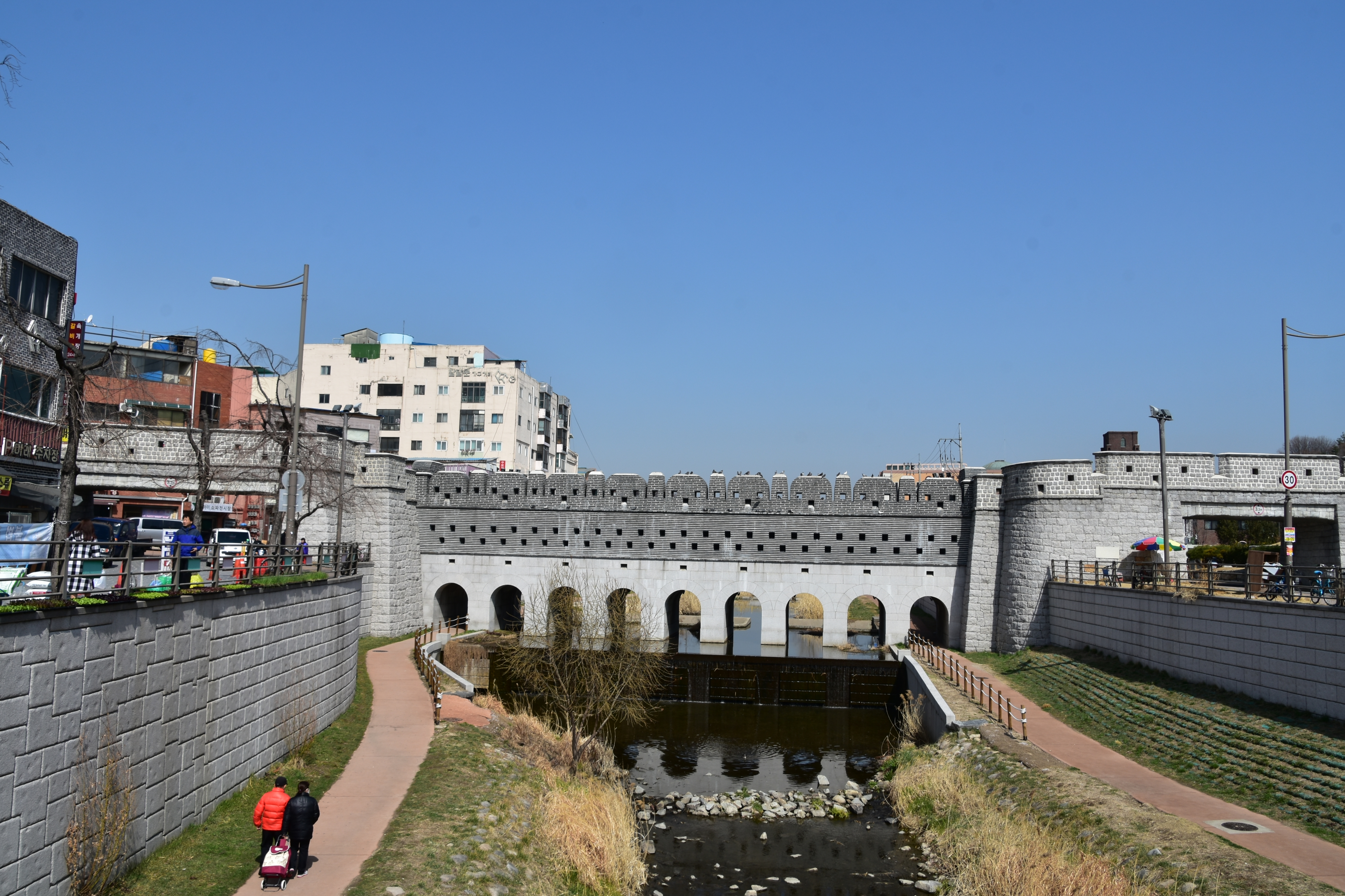 Fortifications of Suwon, late 18th century (4)